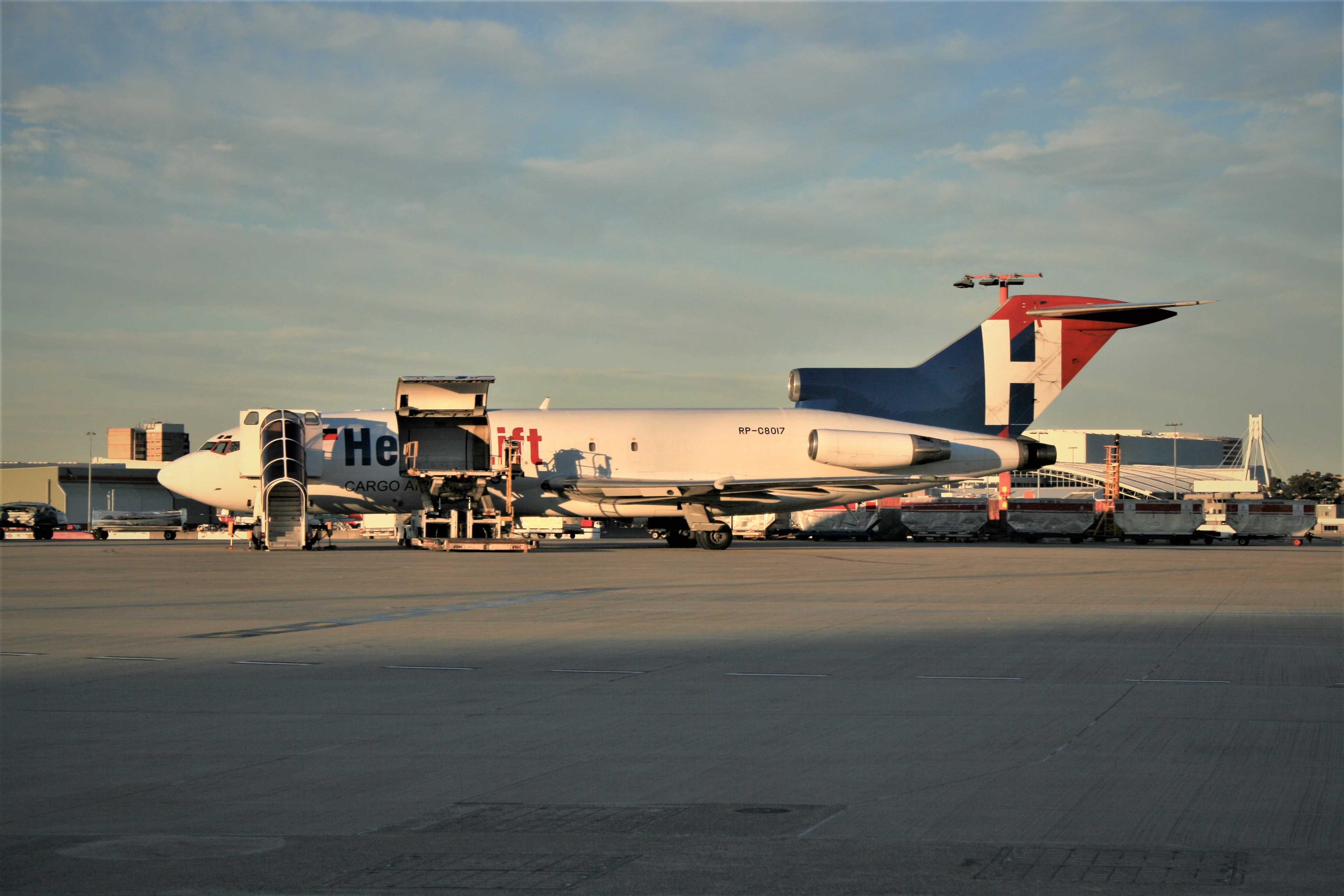 One of HeavyLift's Boeing 727-100 freighters waits for its cargo at Sydney International Airport. Digital photo of Boeing 727-100F RP-C8017 taken by YSSYguy on August 28 2007 & uploaded for use in article about HeavyLift.